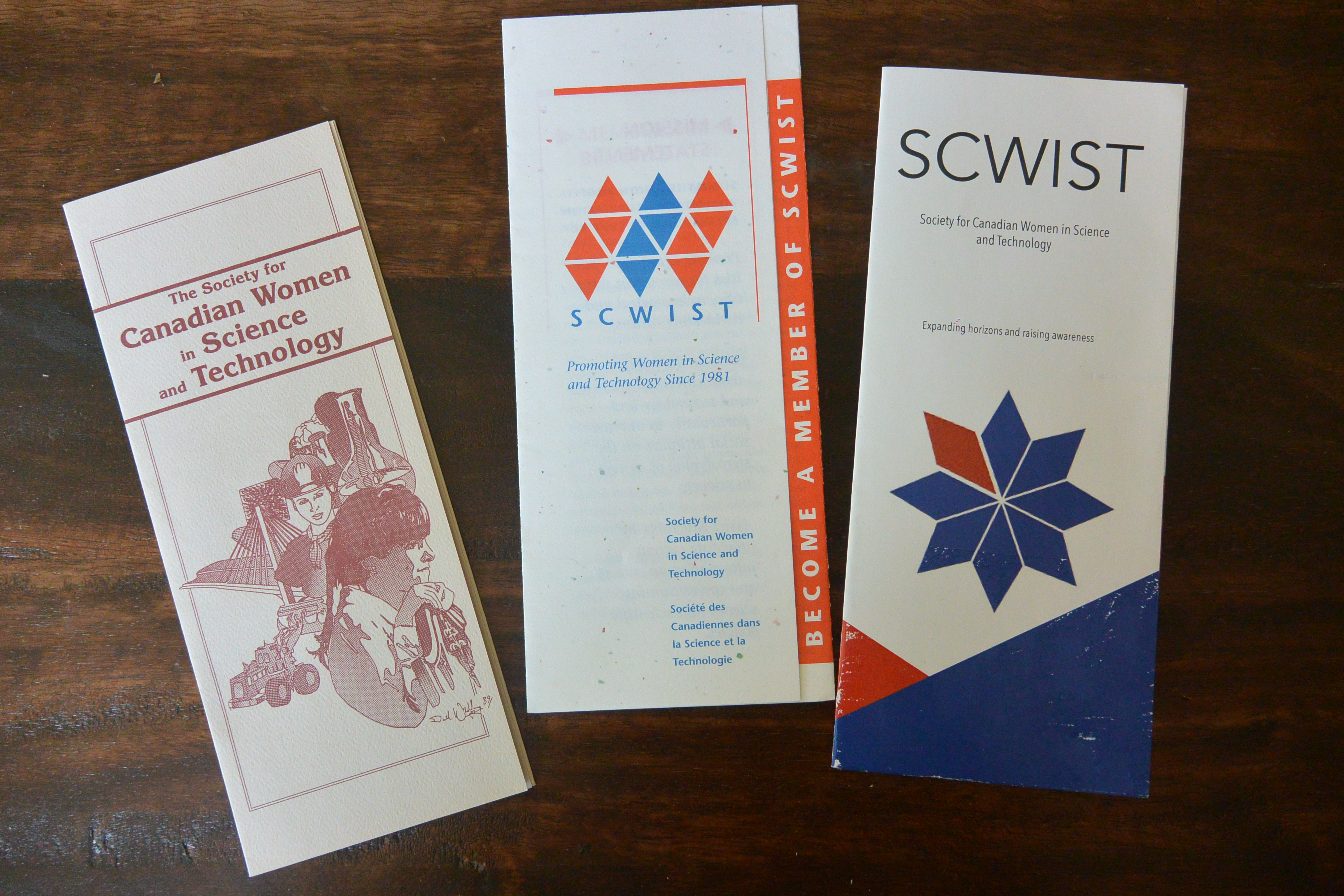 Society for Canadian Women in Science and Technology leaflets helped non-profit explain their mission and benefits they offer.